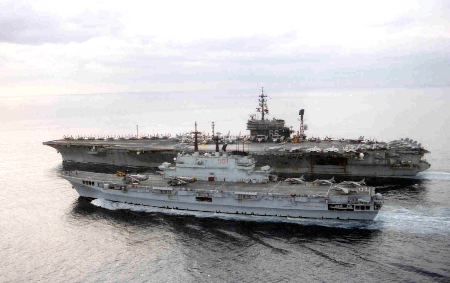 The Italian light aircraft carrier Giuseppe Garibaldi (C 551) (foreground) and the U.S. Navy aircraft carrier USS America (CV-66) conduct joint operations in the Adriatic Sea off the coast of Croatia on 19 January 1996. The America and her battle group were operating in the Adriatic in support of the NATO Operation Joint Endeavour in Bosnia and Herzegovina.